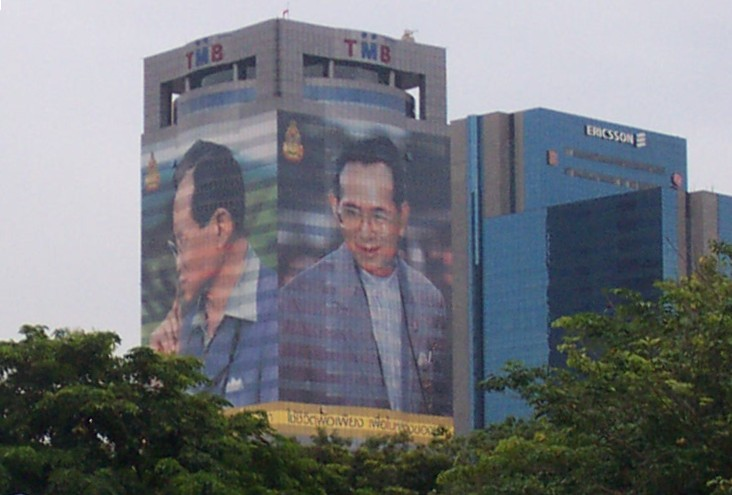 Thai Military Bank, Pahonyatin Road, Bangkok.